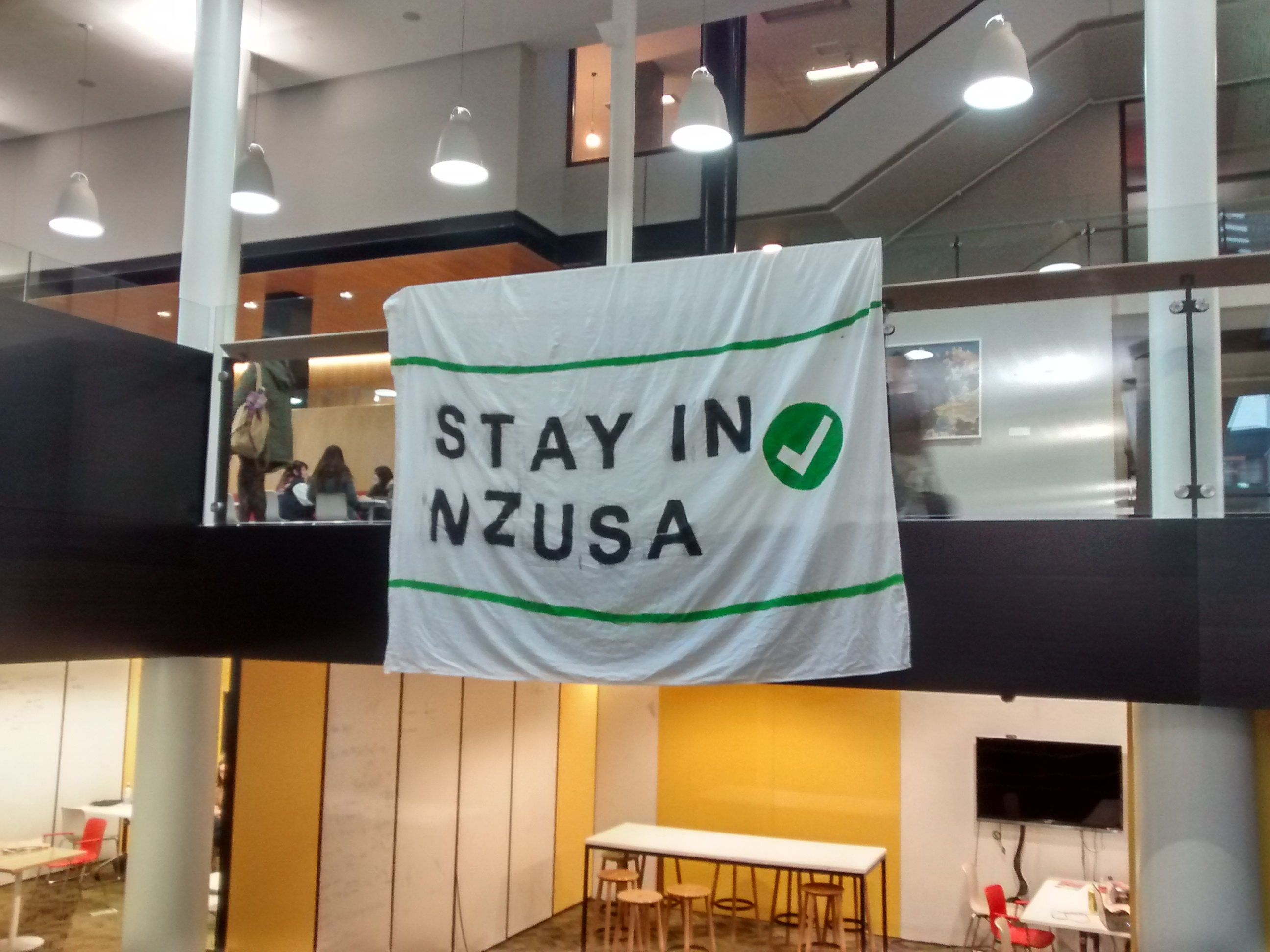 A student elections banner at Victoria University Wellington in September 2015. The banner asks voters to vote in the upcoming referendum to stay in the New Zealand Union of Students' Associations.